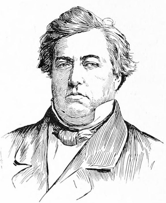 Portrait drawing of Confederate general and U.S. Congressman from Kentucky Humphrey Marshall